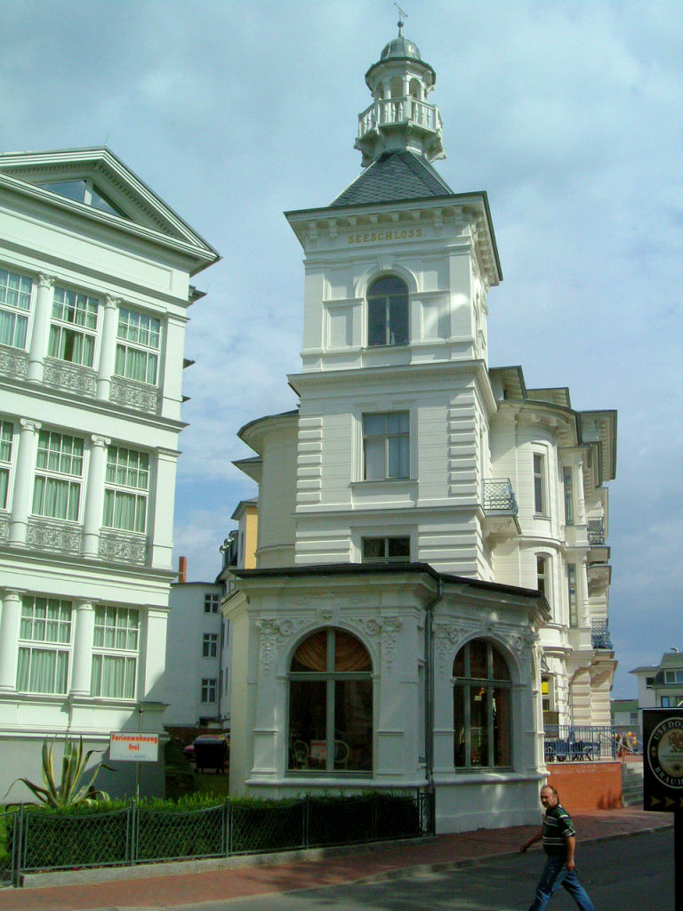 Heringsdorf, Usedom Island, Germany - "Sea Castle", a distinctive example of German Resort Architecture ("Bäderarchitektur"), a sub style of historicism